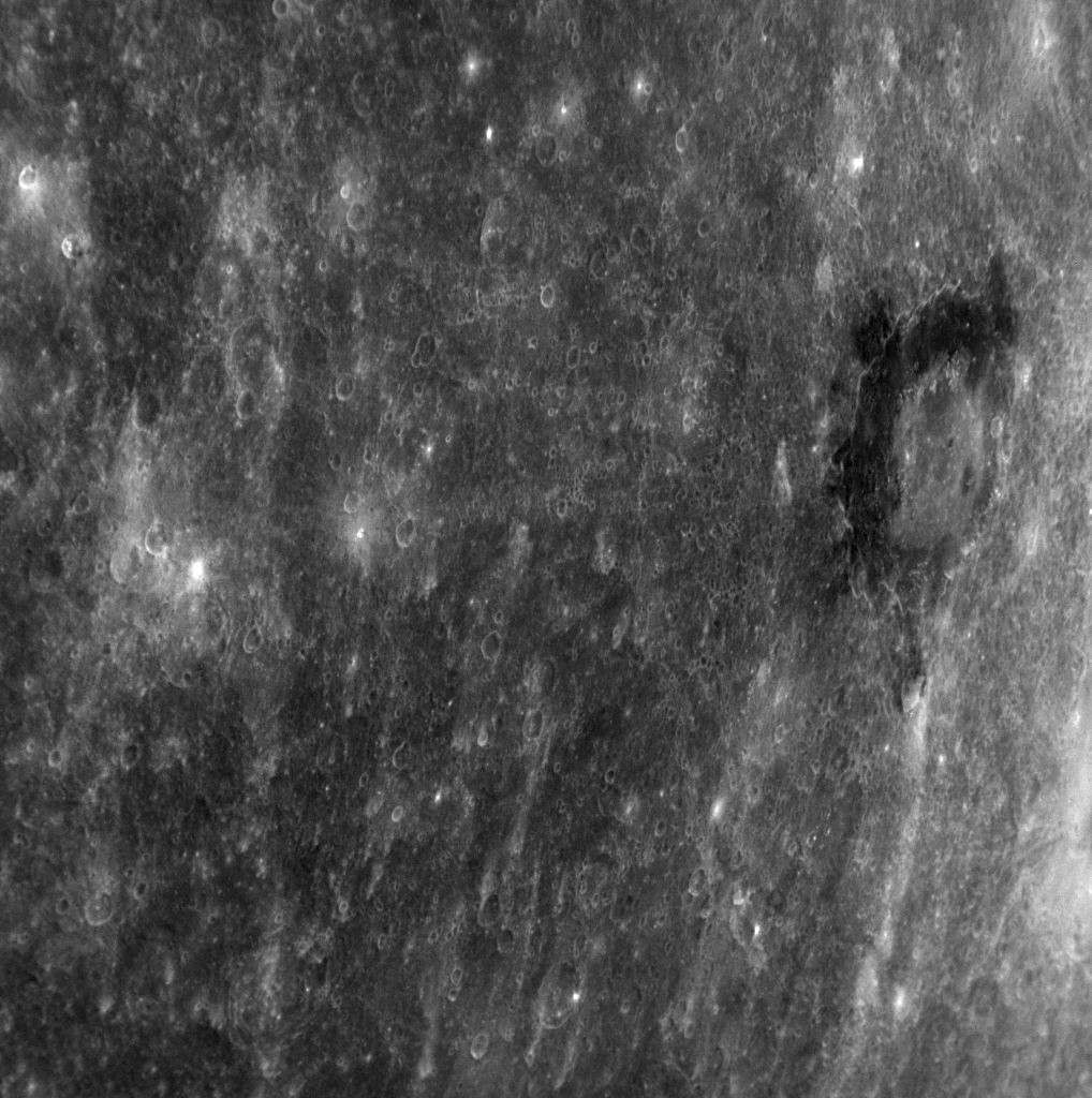 Image Mission Elapsed Time (MET): 131774051 Instrument: Narrow Angle Camera (NAC) of the Mercury Dual Imaging System (MDIS) Resolution: 540 meters/pixel (0.34 miles/pixel) on the left side of the image Scale: This image is about 550 kilometers tall (340 miles) Spacecraft Altitude: 21,200 kilometers (13,100 miles) Of Interest: A crater discovered in the newly imaged portion of Mercury’s surface during MESSENGER’s second Mercury flyby has uncommonly dark material within and surrounding the crater. The material is darker than the neighboring terrain such that this crater with a diameter of 180 kilometers (110 miles) is easily identified even in a distant global image of Mercury; it is located just south of the equator near the limb of the planet in this previously released Wide Angle Camera (WAC) image. The dark halo may be material with a mineralogical composition different from the majority of Mercury’s visible surface. Craters with similar dark material on or near their rims were seen on the floor of the Caloris basin during MESSENGER’s first flyby. Images acquired though the 11 different narrow-band color filters of the WAC during MESSENGER’s second flyby will be crucial to an understanding of the nature of this newly seen, unusual feature.